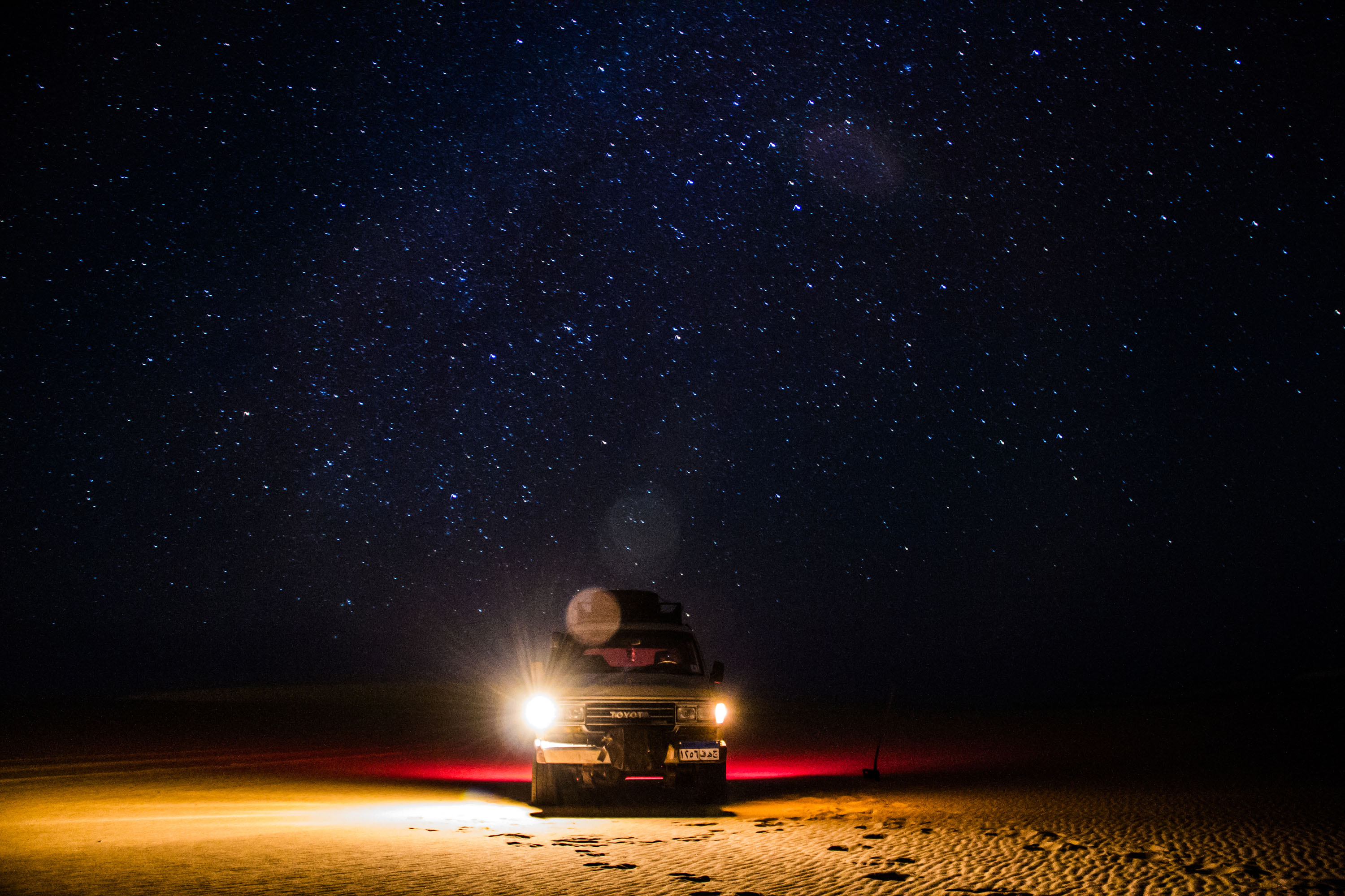 Avenue of Stars in the Siwa Oasis in the Western Desert